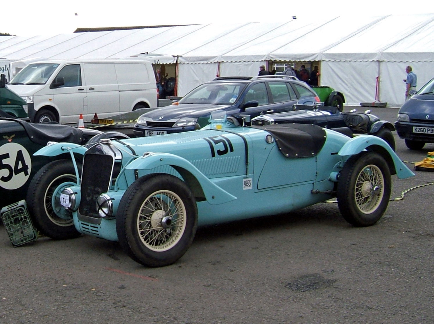 A Delage D6-75 TT waiting in the paddock of the VSCC SeeRed race meeting, Donington Park, September 2007.